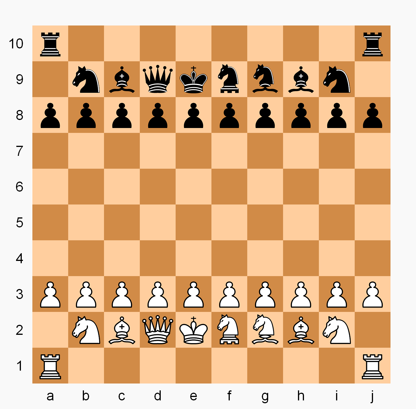 Grand Chess starting position; using free-use icons by Cburnett, and fairy icons by Arvindn (mod'd by Klin); all done in MS PAINT.